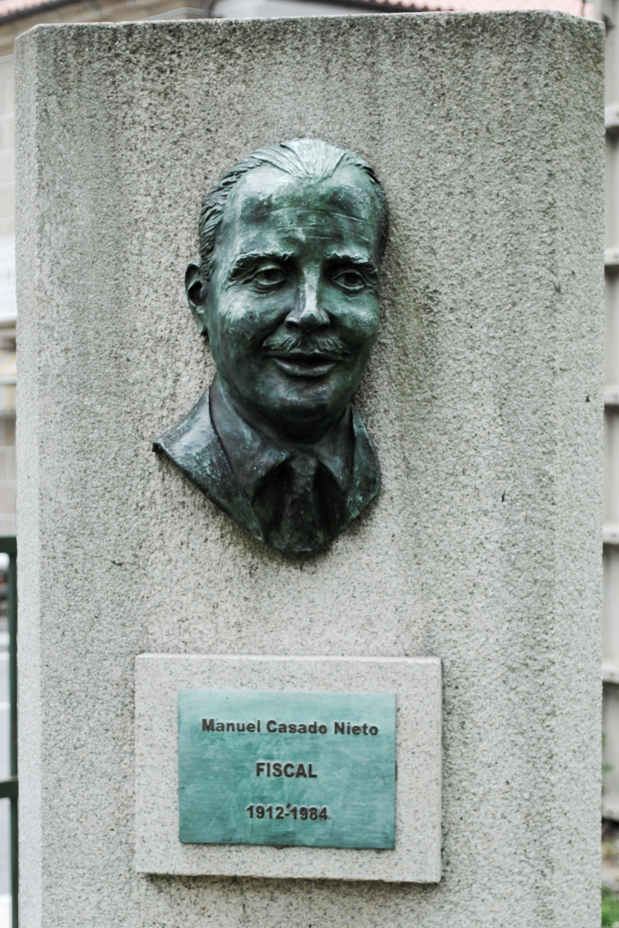 See titlle.